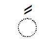 The letter Fathatan from the Arabic alphabet, belonging to the group of Harakat diacritic marks, used to represent vowels. The Fathatan (actually two Fathas) is found at the end of words in the undetermined accusative case and sounds like /an/. The circle indicates the position of the consonant the Harakat is used upon.